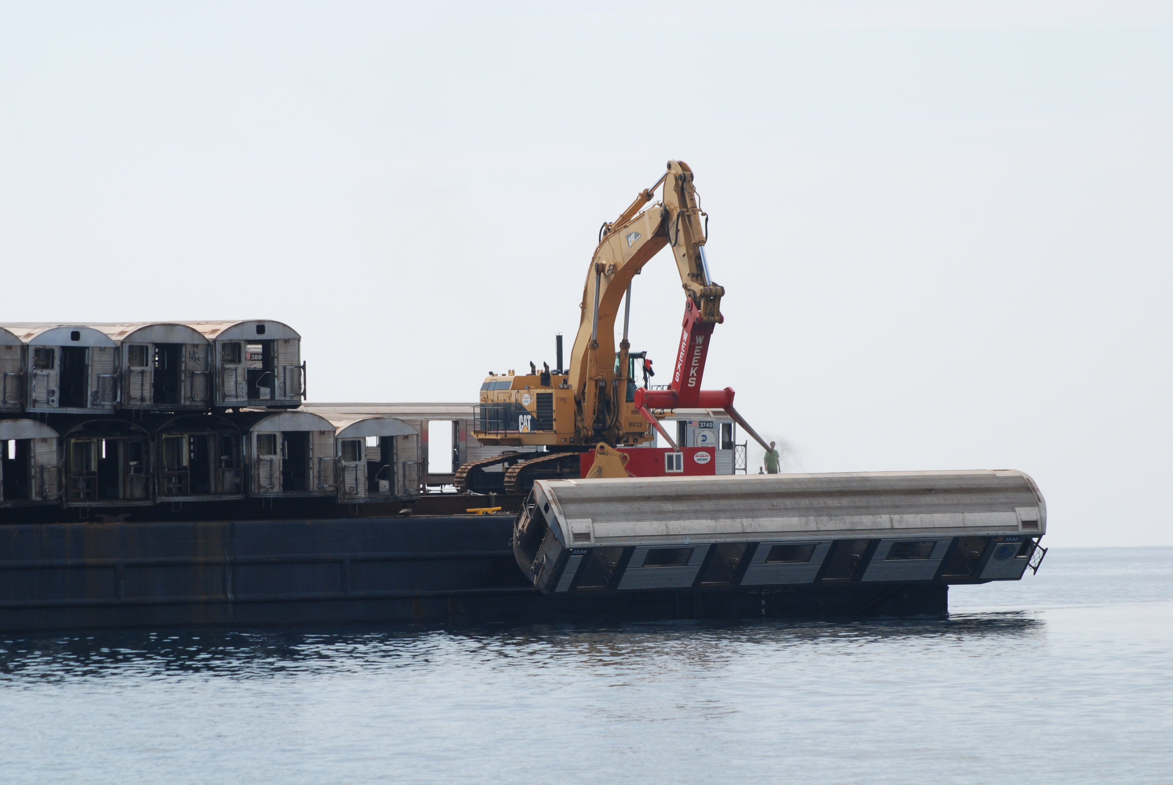 South Carolina's marine artificial reefs are constructed from a wide variety of materials ranging from various forms of suitable scrap to specifically designed and constructed reef habitat structures. Steel-hulled vessels are the most commonly employed scrap material in reef construction, with over 100 having been sunk off the state since 1969. Other scrap materials recycled on South Carolina reefs include steel and concrete bridges, concrete culvert pipe, steel dry dock work platforms, ex-military aircraft and even intercontinental ballistic missiles.